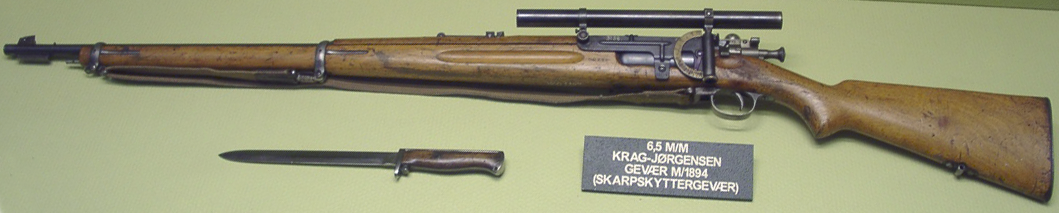 Norwegian K-J M1894 sniper. Uploader has taken this picture for use on Wikipedia.